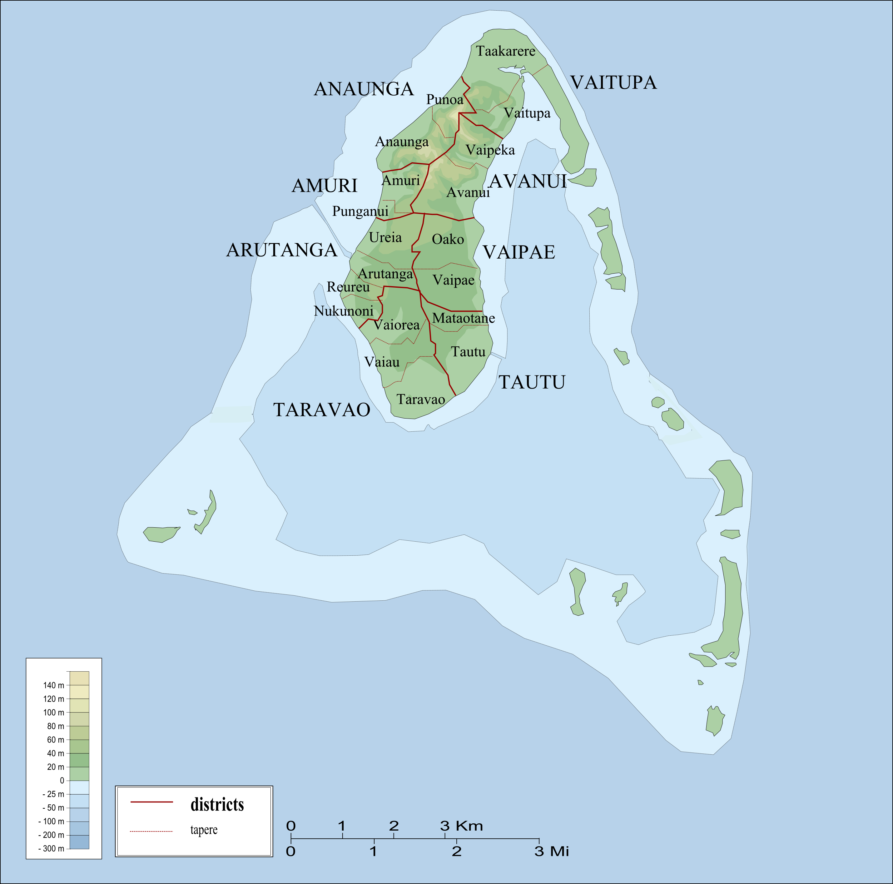 Districts et tapere d'Aitutaki/disctricts and tapere of Aitutaki